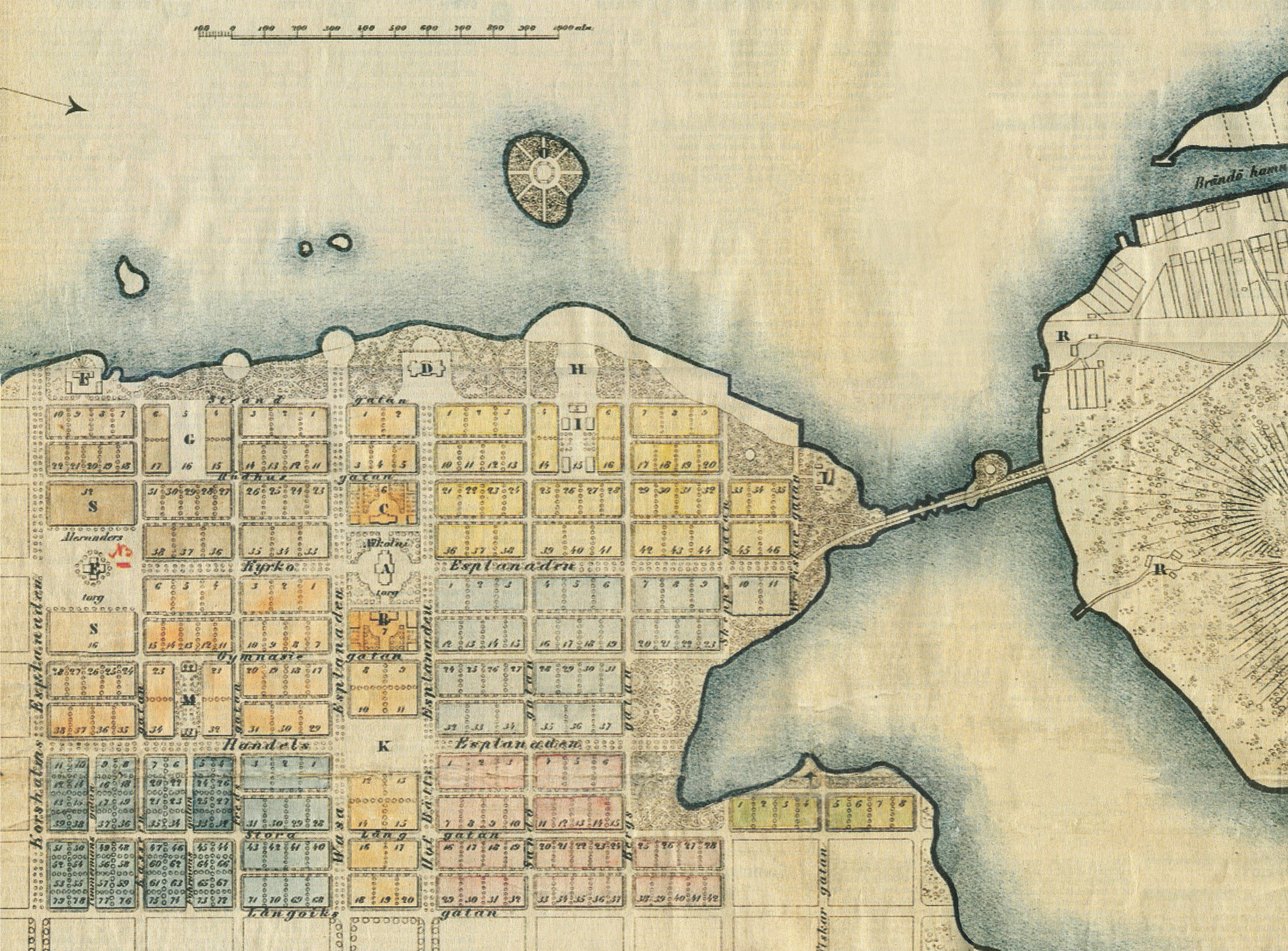 City plan of Vaasa, Finland, by Carl Axel Setterberg, ratified in 1855.